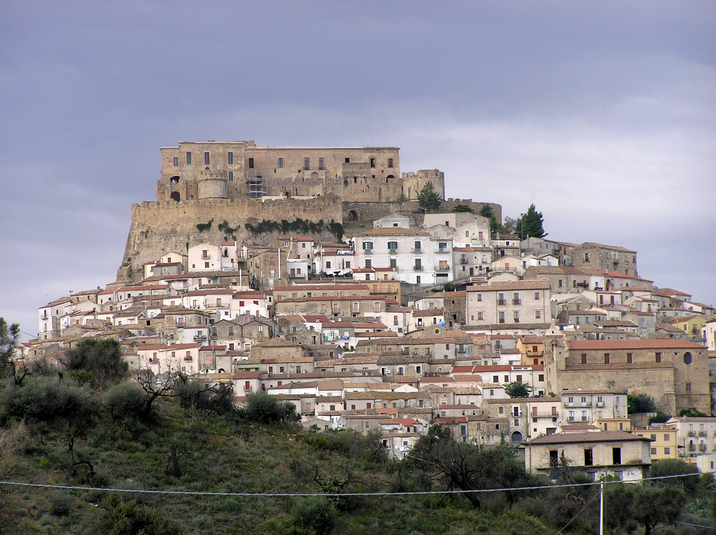 The from the imperator Friedrich II constructed castle Rocca Imperiale.